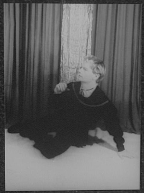 Title: Portrait of Donald Madden, as Hamlet Abstract/medium: 1 photographic print : gelatin silver.